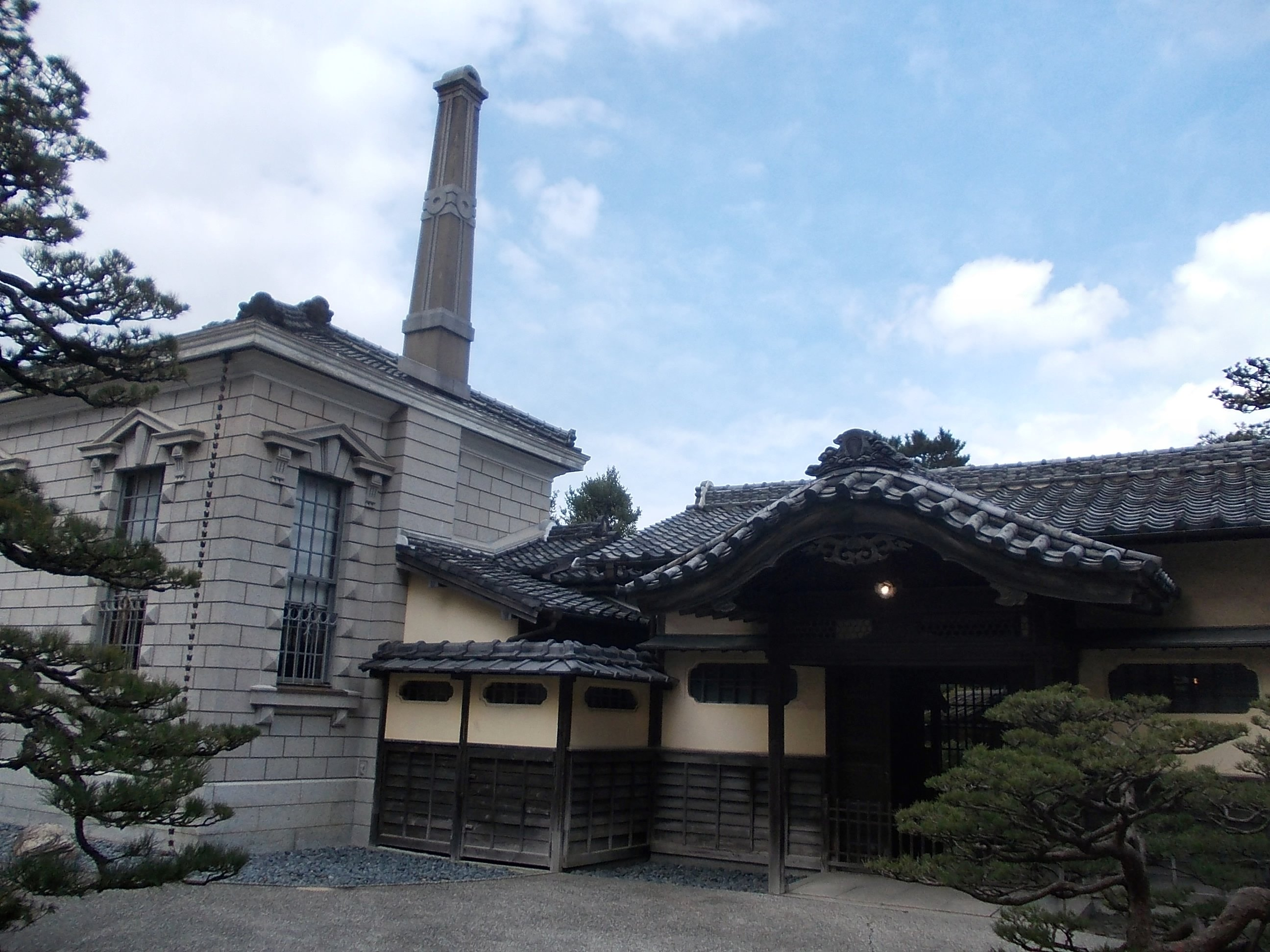 The Former Takatori Residence, Karatsu, Saga, Japan